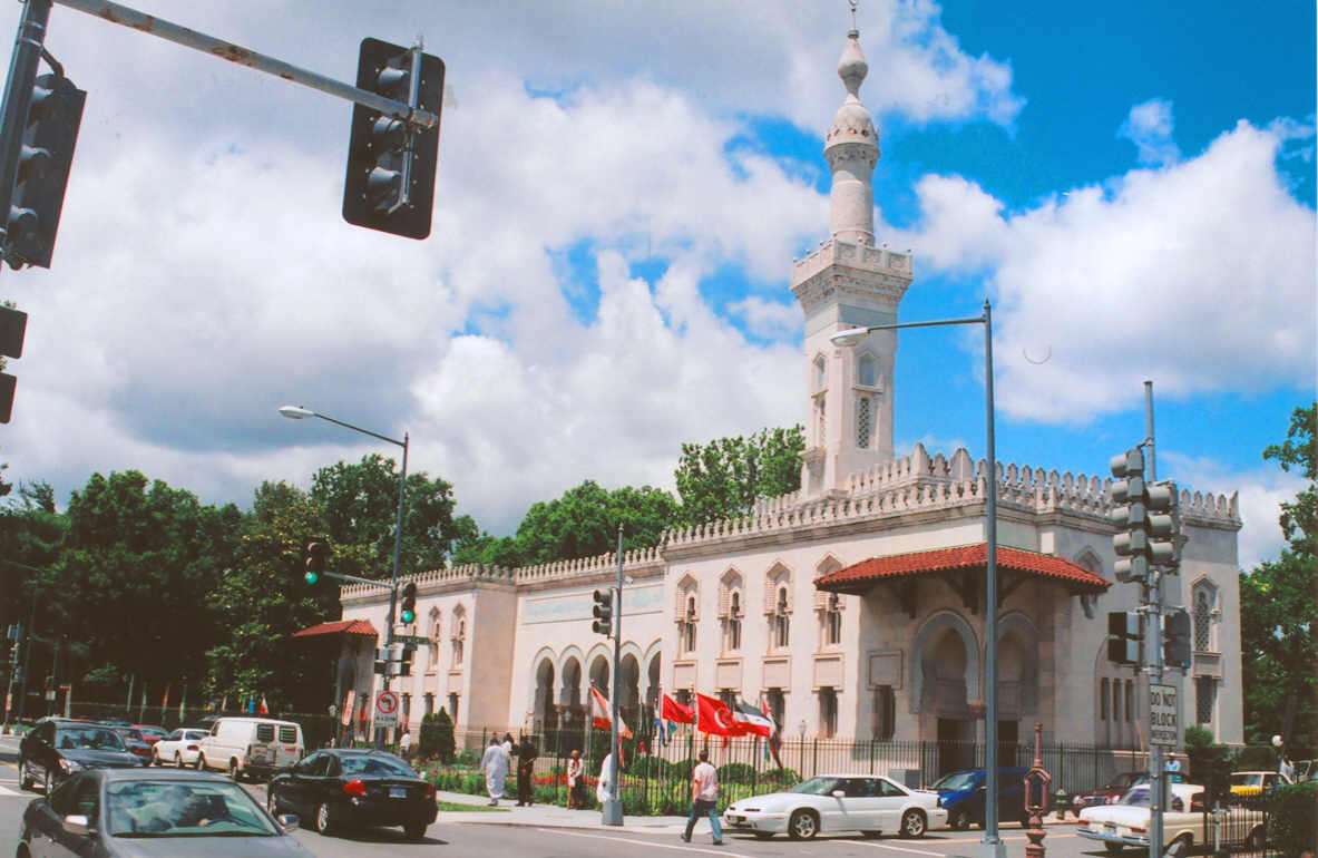 Islamic Center, 2501 Massachusetts Avenue NW, Washington, DC . Friday, 8 July 2005